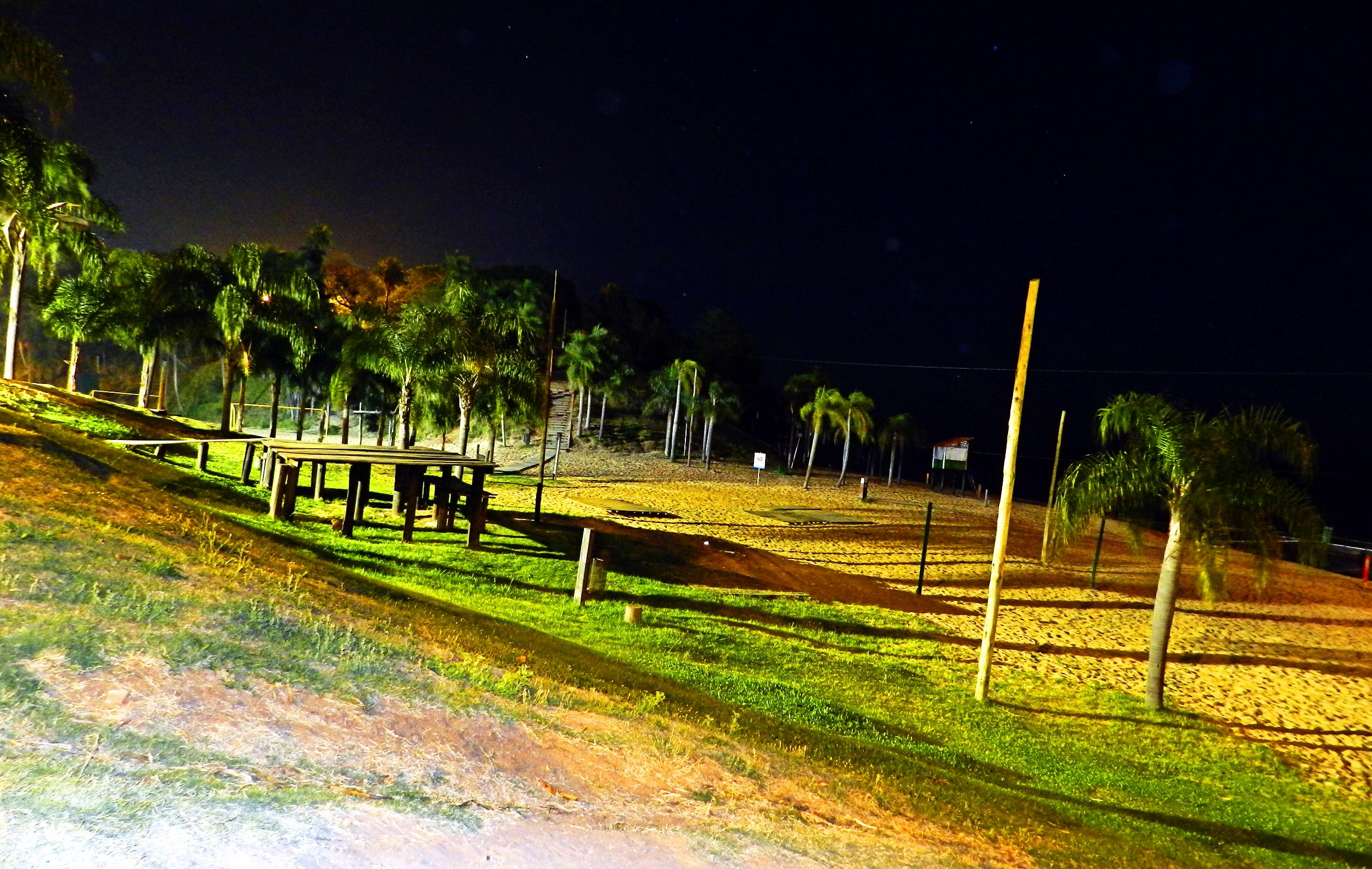 Night view of the beach located in the coast of the Parana river in Bella Vista, Corrientes (Argentina)